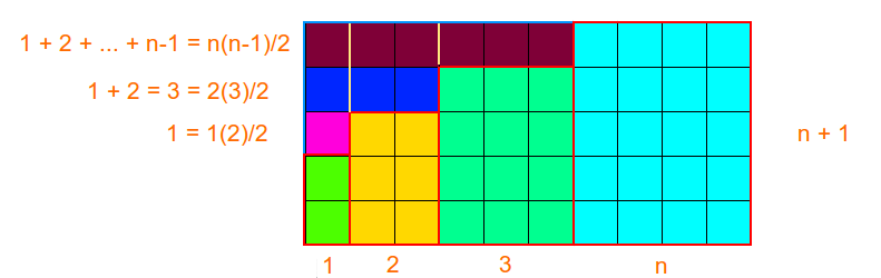 Visual representation of a partial sum of pronic numbers